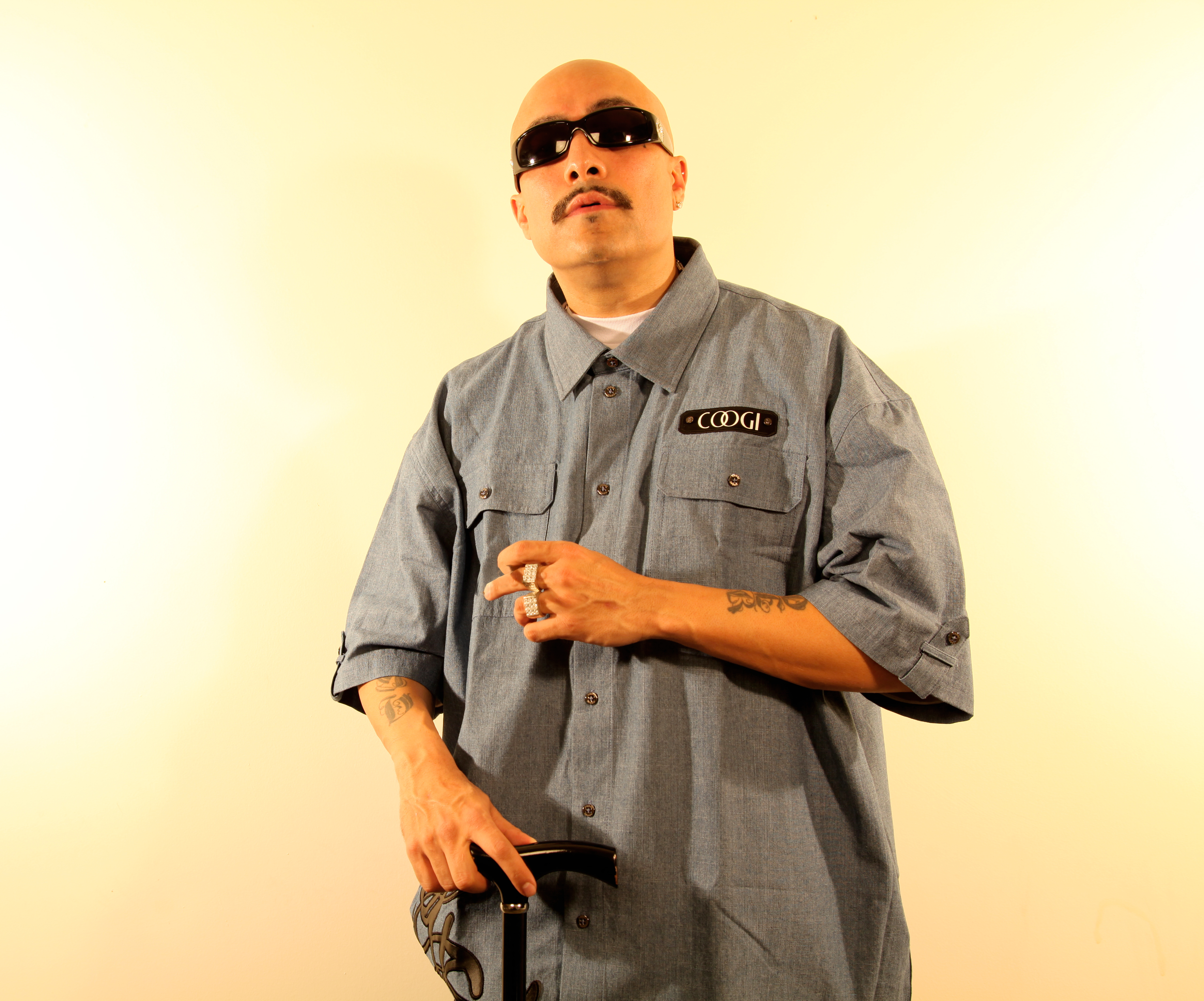 Mr.Capone-E